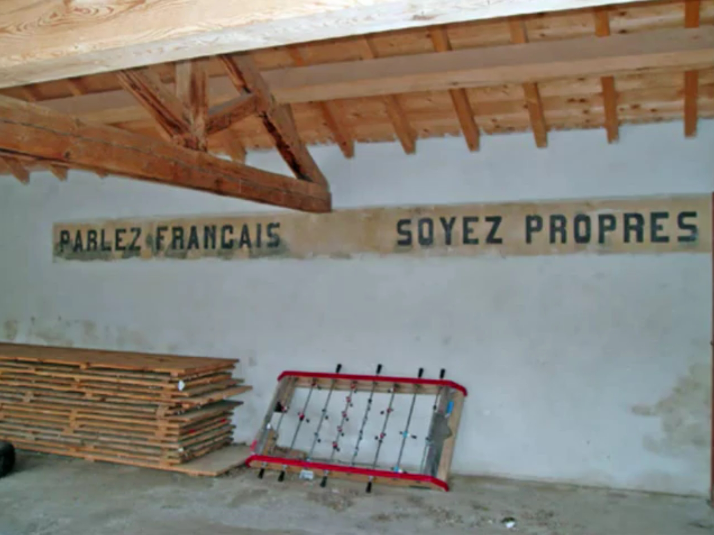 "Speak French, Be Clean", written on the wall of the Aiguatébia-Talau school. These phrases, as well as the one of "it is forbidden to spit or to speak Catalan" are typical of French nationalism